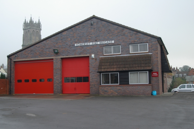 Glastonbury fire station, Glastonbury, Somerset